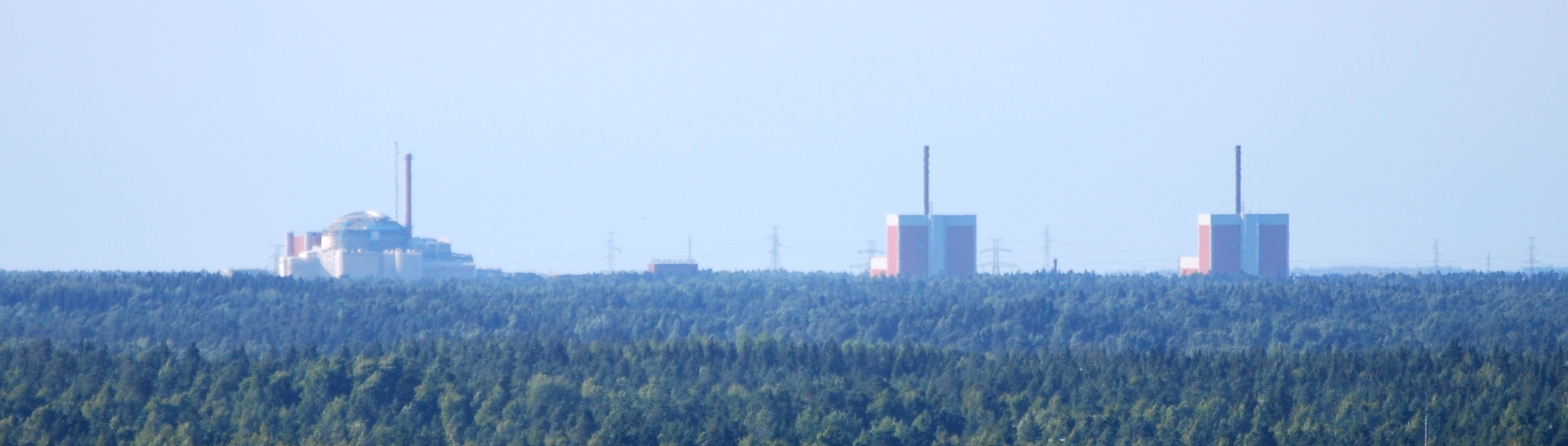 Olkiluoto nuclear power plants seen from Rauma water tower